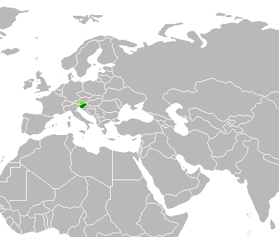 Map of Slovene Speaking World. Map made by xJaM from Image:BlankMap-World.png